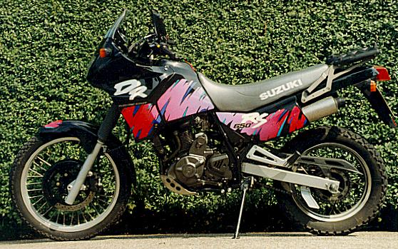 Motorcycle Suzuki DR650RSE from 1992